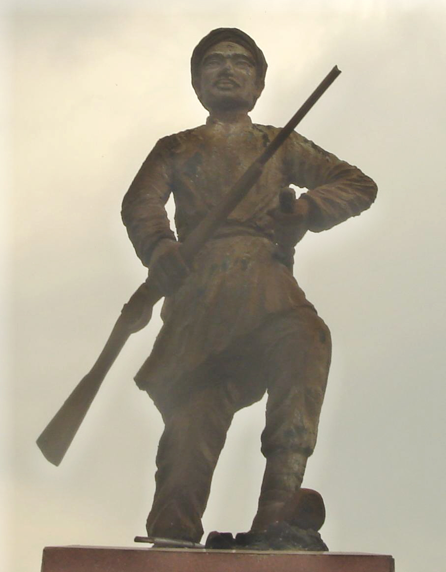 crop of Image:Statue_of_Phan_Dinh_Phung_2.JPG